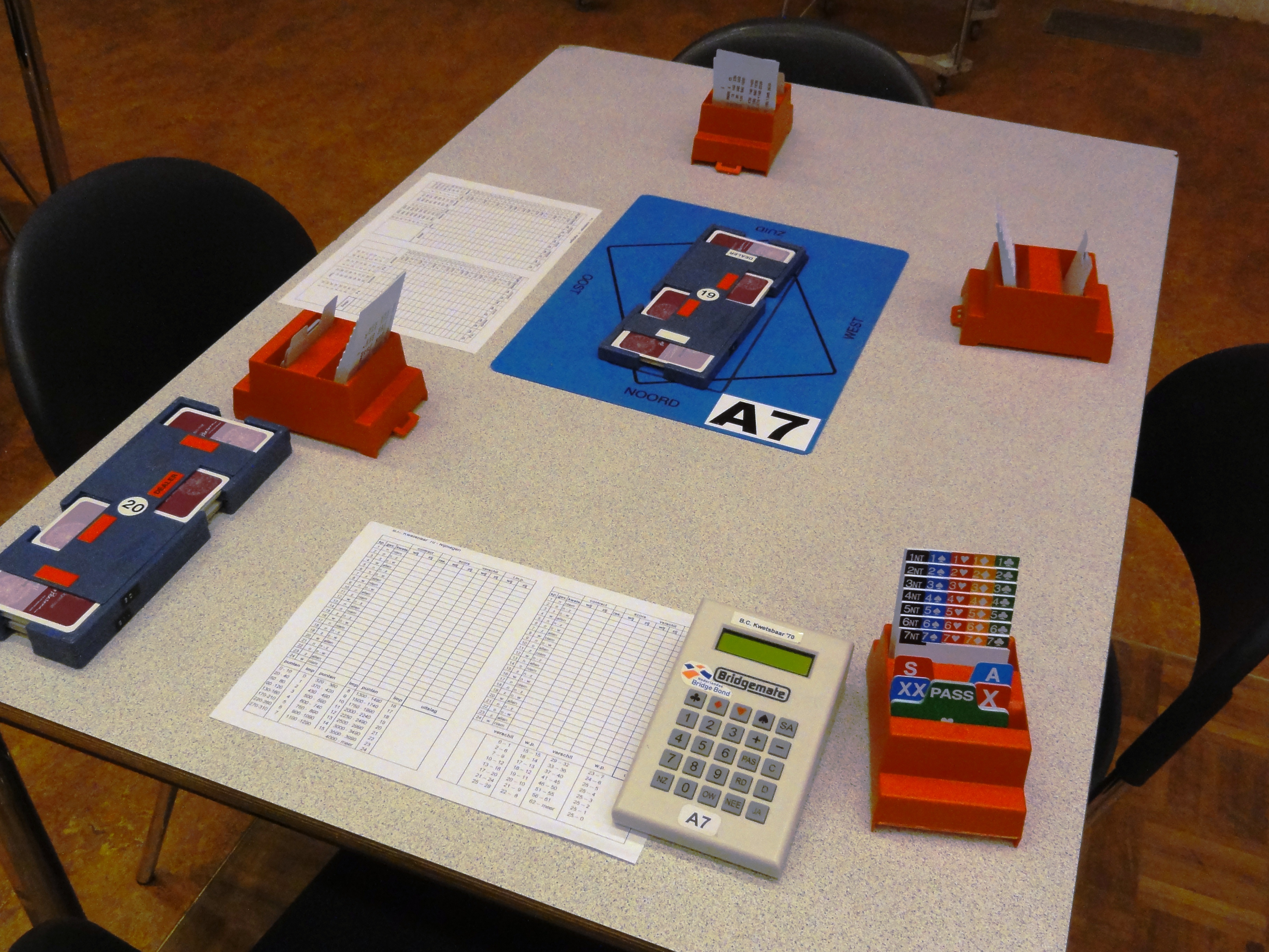 Bridgetafel met tafelbord, spellen, biddingboxen, bridgemate en scorebriefjes voor viertallen